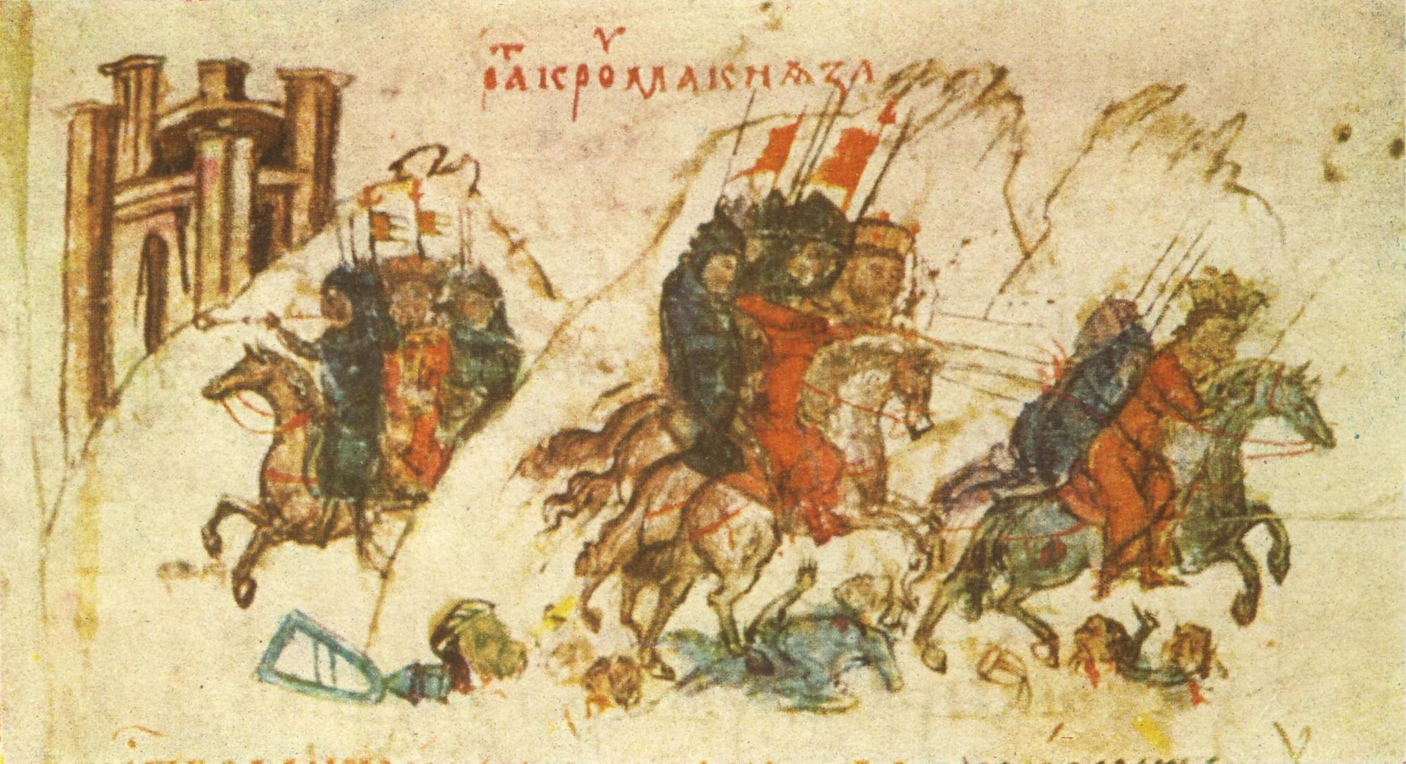 Miniature 52 from the Constantine Manasses Chronicle, 14 century: The army of Krum of Bulgaria persecutes and wounds Nikephoros' son and successor Staurakios